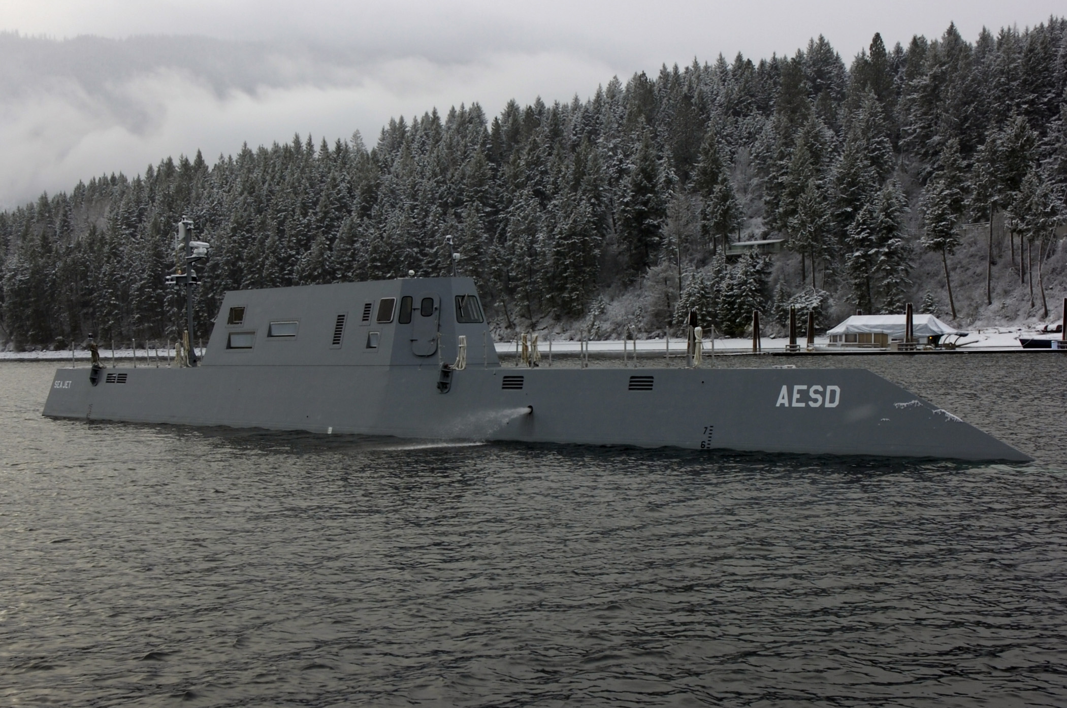 Bayview, Idaho (Nov. 30, 2005) - The Advanced Electric Ship Demonstrator (AESD), Sea Jet, undergoes sea trials on Lake Pend Oreille at the Naval Surface Warfare Center Carderock Division, Acoustic Research Detachment in Bayview, Idaho. Funded by the Office of Naval Research (ONR), Sea Jet is a 133-foot vessel testing an underwater discharge water jet from Rolls-Royce Naval Marine, Inc., called AWJ-21, a propulsion concept with the goals of providing increased propulsive efficiency, reduced acoustic signature, and improved maneuverability over previous Destroyer Class combatants.